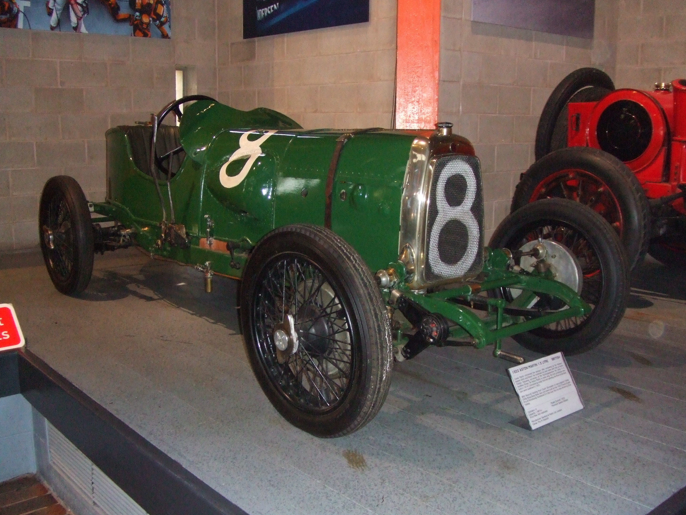 1922 Aston Martin 1.5 litre at the Beaulieu Motor Museum, 10/06.